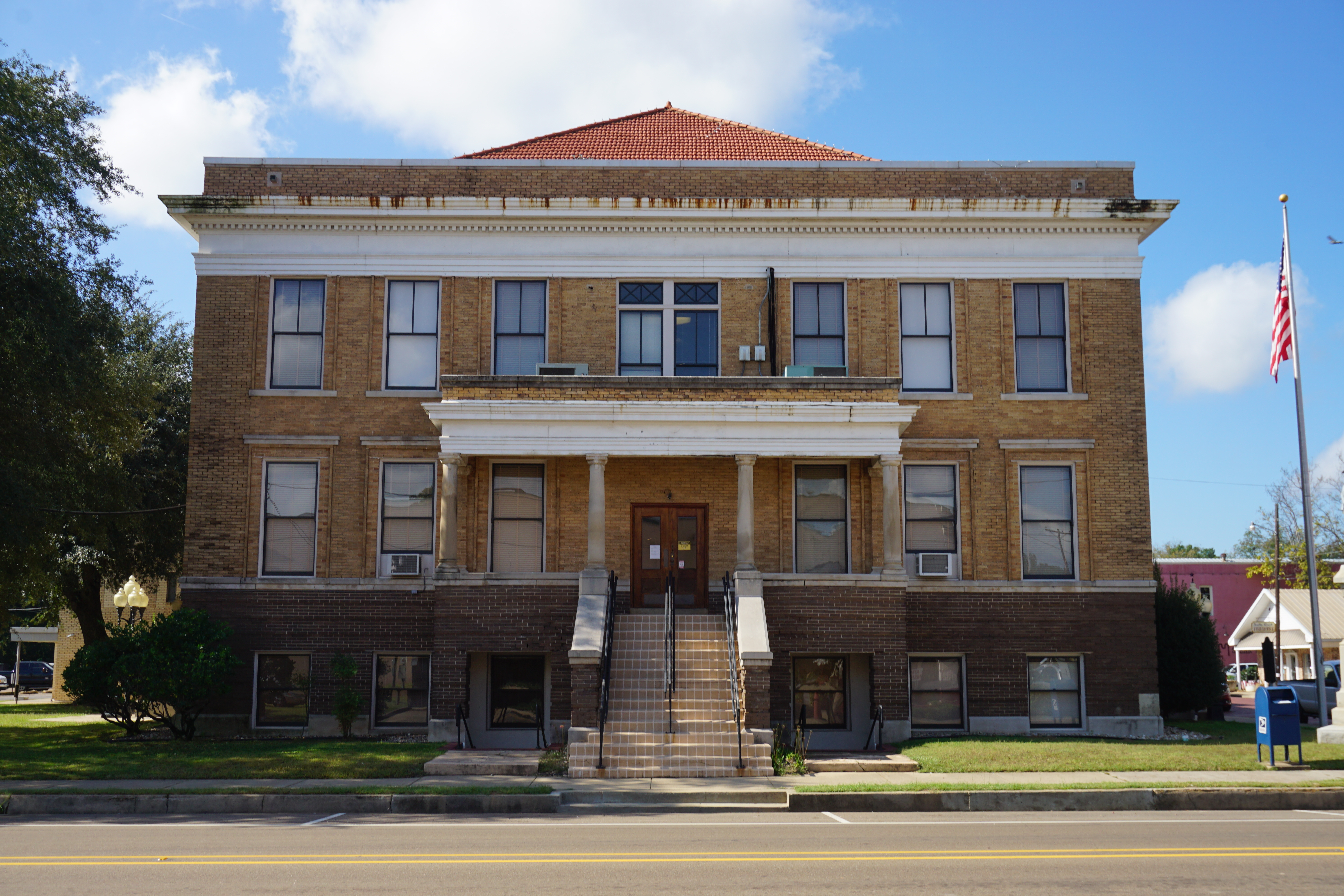 The Marion County Courthouse in Jefferson, Texas (United States).